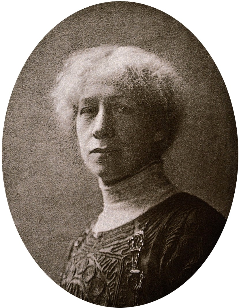 Miss Anna Elizabeth Klumpke, head and shoulders, in middle age